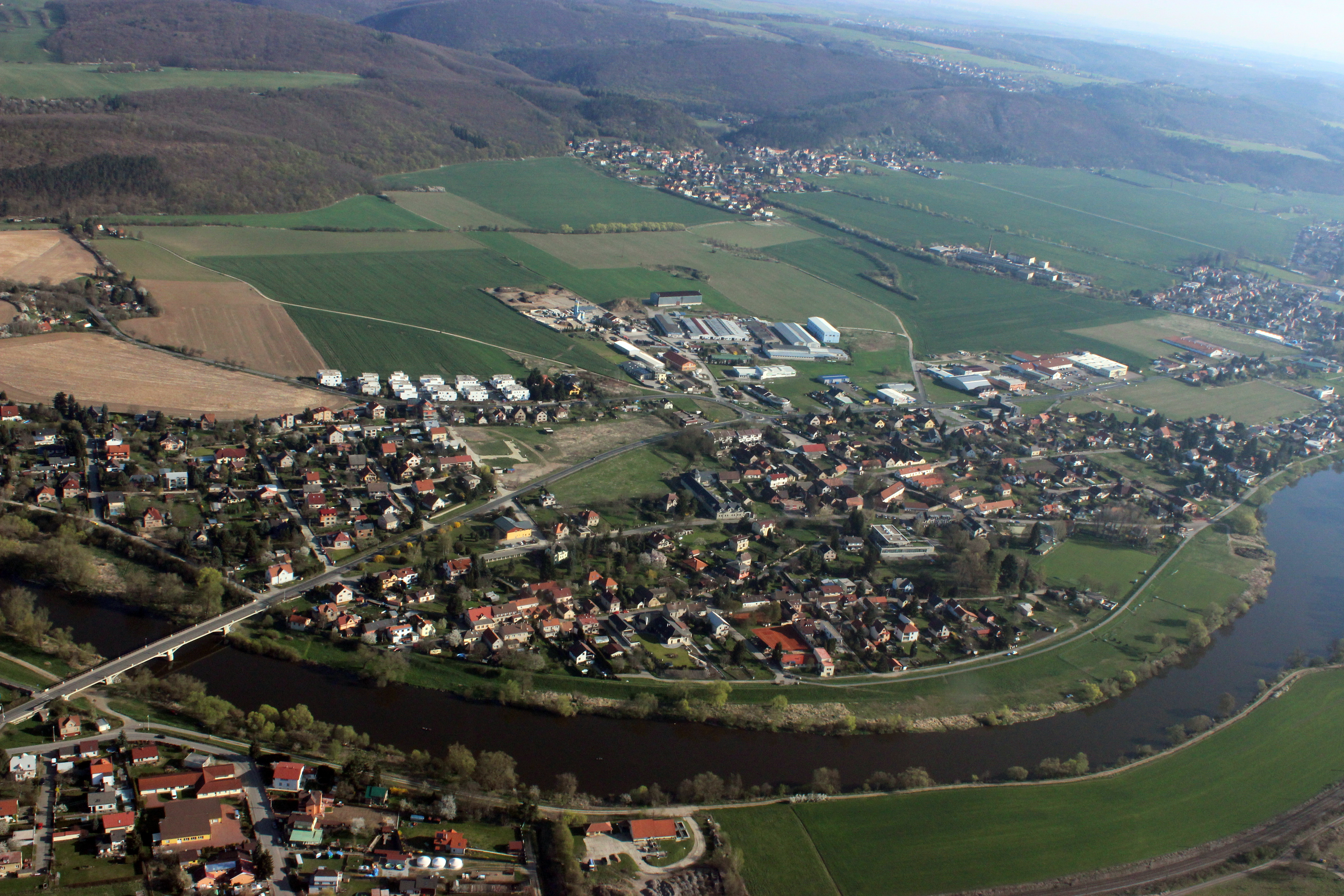 Aerial view of Lety (Central Bohemia)